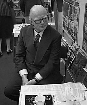 Title: Frankfurt/Main, Buchmesse, Werner Höfer People in the image: Höfer, Werner: Journalist, Chefredakteur Deutsche Allgemeine Zeitung, FDP, Bundesrepublik Deutschland (GND 118551884) Factual corrections and alternative descriptions are encouraged separately from the original description. Additionally errors can be reported at this page to inform the Bundesarchiv. Original historic description: 29. Frankfurter Buchmesse Ausstellungsstände (Werner Höfer)